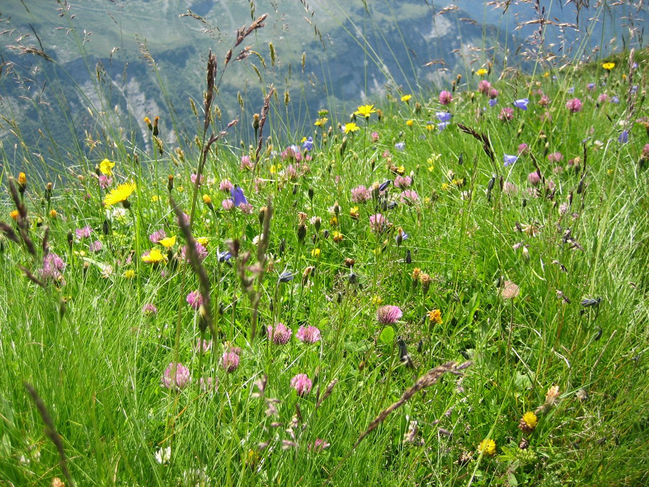 Alpine pasture in the Bernese Alps, 2200 m a.s.l.